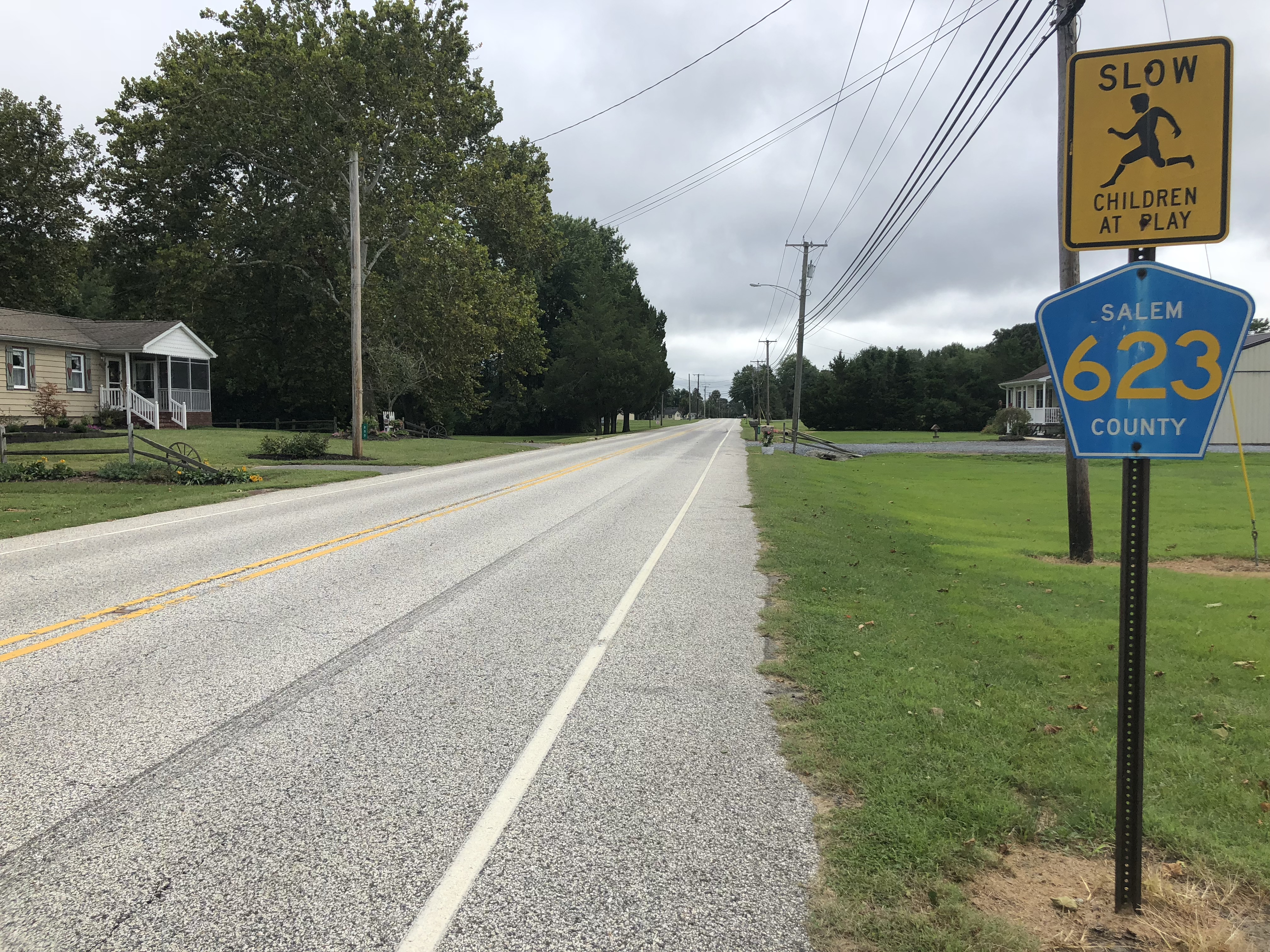 View south along Salem County Route 623 (Main Street/Canton Road) just south of Church Road in Lower Alloways Creek Township, Salem County, New Jersey